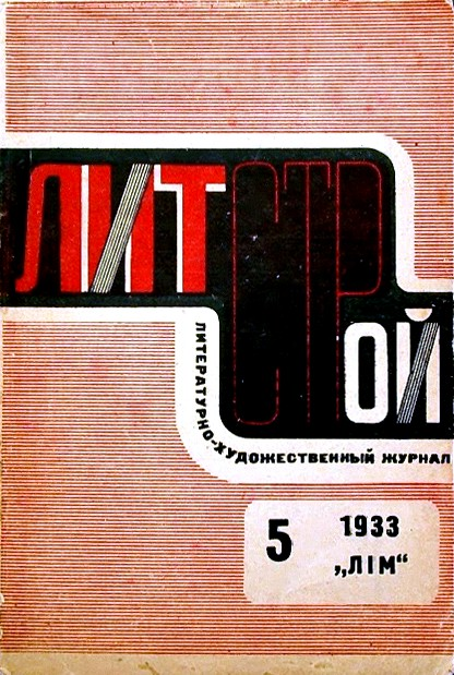 Book cover - LITSTROY. Literary-Artistic Magazine No. 5, Kharkiv: DVOU-LIM, 1933